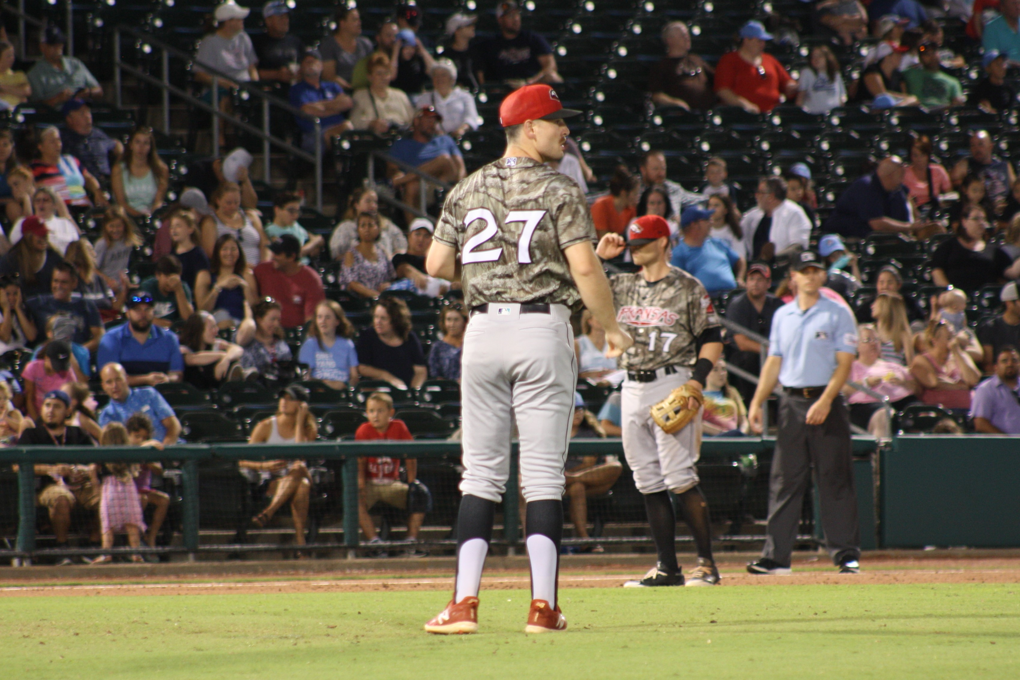 Matt Festa pitches for the Arkansas Travelers against the Northwest Arkansas Naturals at Arvest Ballpark in Springdale, AR